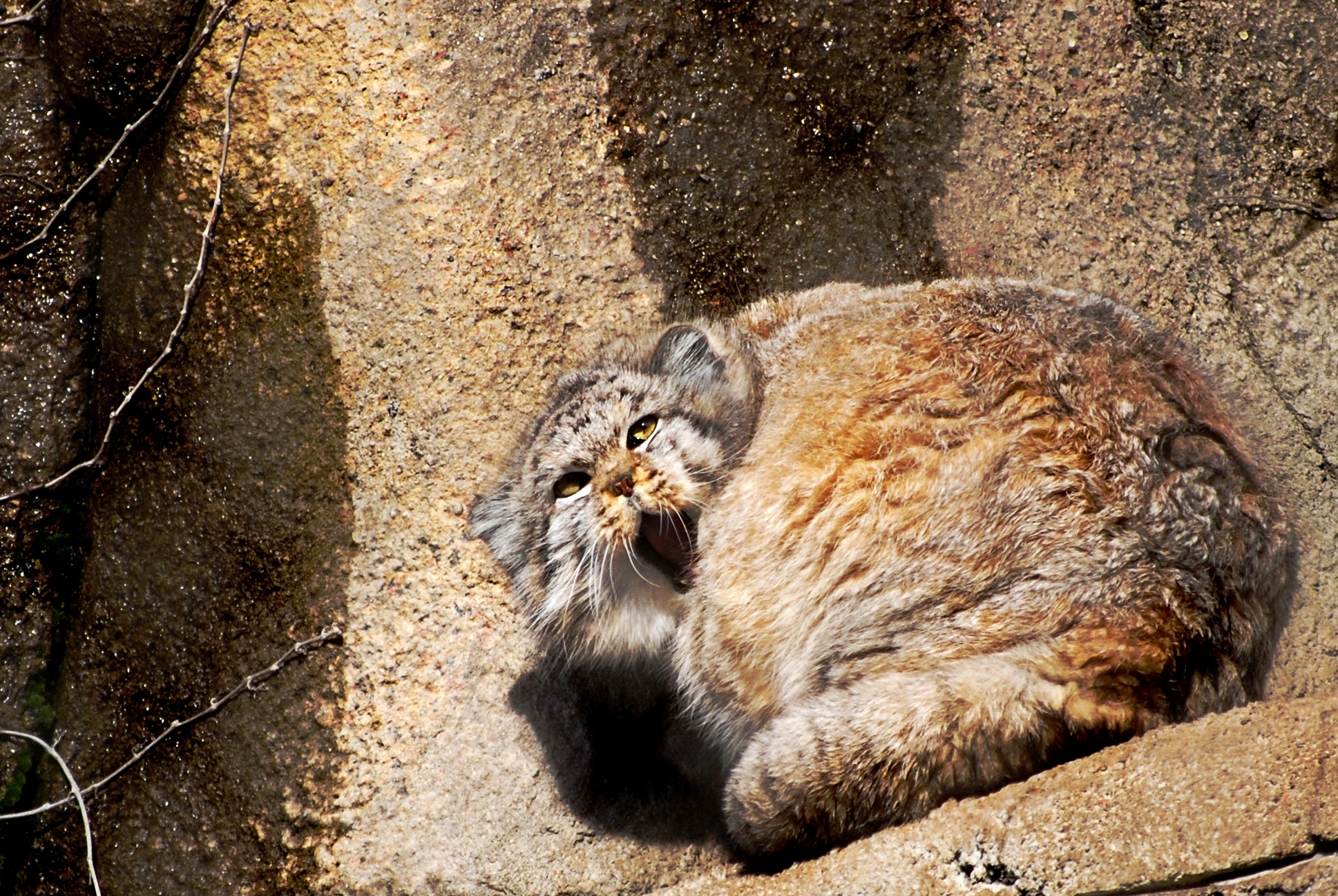 I just can't seem to quit playing with this photo. The little guy is just so, so ... evil. So this is yet another incarnation of a photo I took quite some time ago & already have posted somewhere in my photostream. I lightened it up, sharpened it a tad, & cropped it in tighter. This little furball was downright cranky. Funny thing is, I think it was just my face. He (she/it) remained curled up against the wall all day, & only uncurled when I came by, at which point he (she/it) would look at me & - well, you can see for yourself. I really was a bit surprised the eyes didn't start glowing... The Lincoln Park Zoo's Pallas' Cat Fact Sheet . View large on black